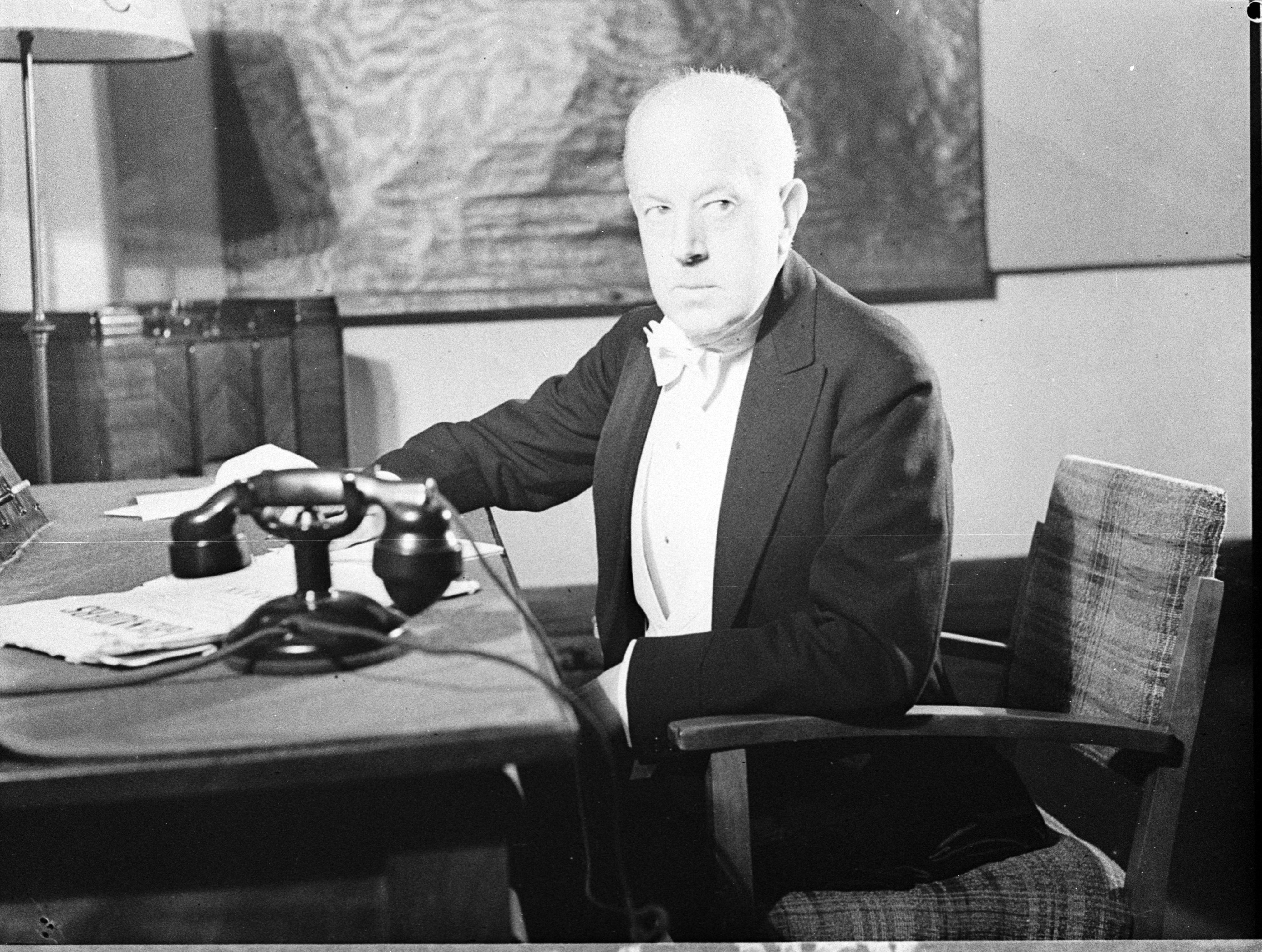 Call number: Home and Away - 31472 Digital ID: hood_31472 Format: film photonegative Find more detailed information about this photograph: Search for more great images in the State Library's collections: From the collection of the State Library of New South Wales